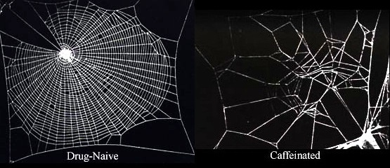 The effect of caffeine on spider web construction